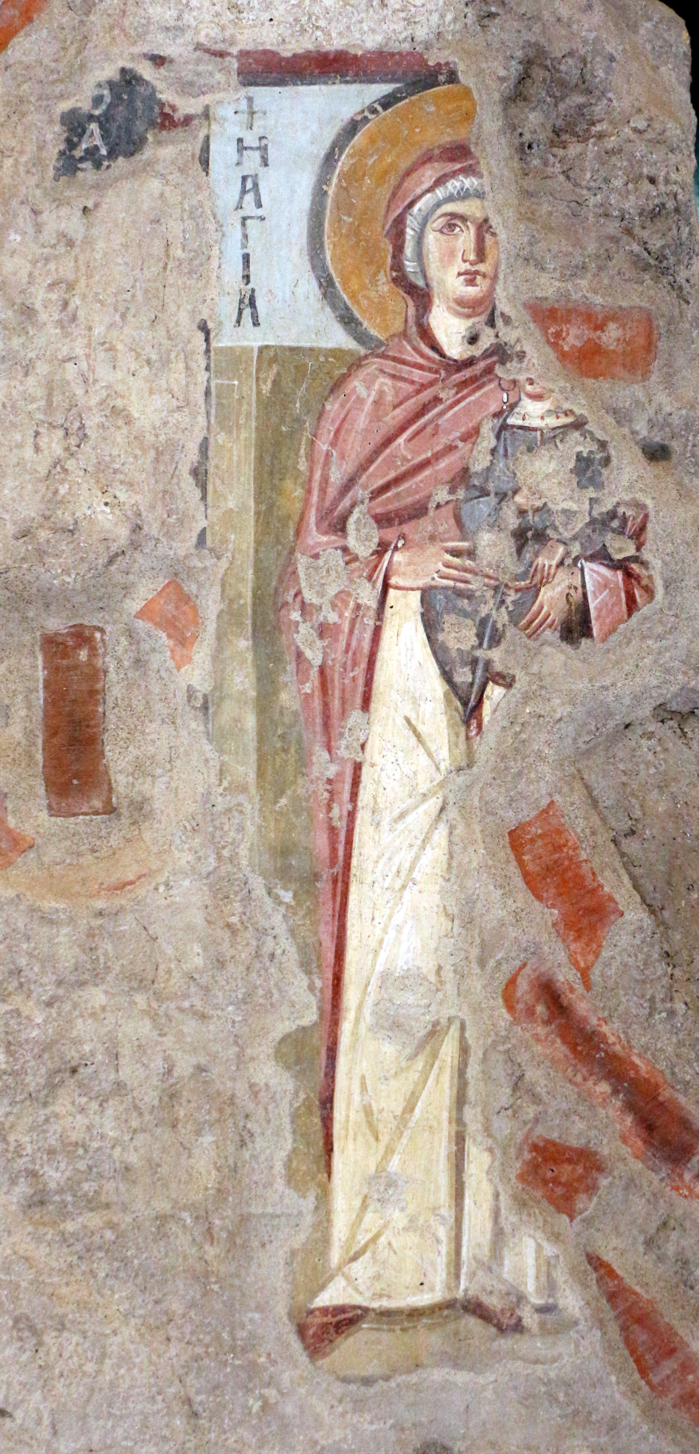 Byzantine frescos in Santa Maria Antiqua (Rome)